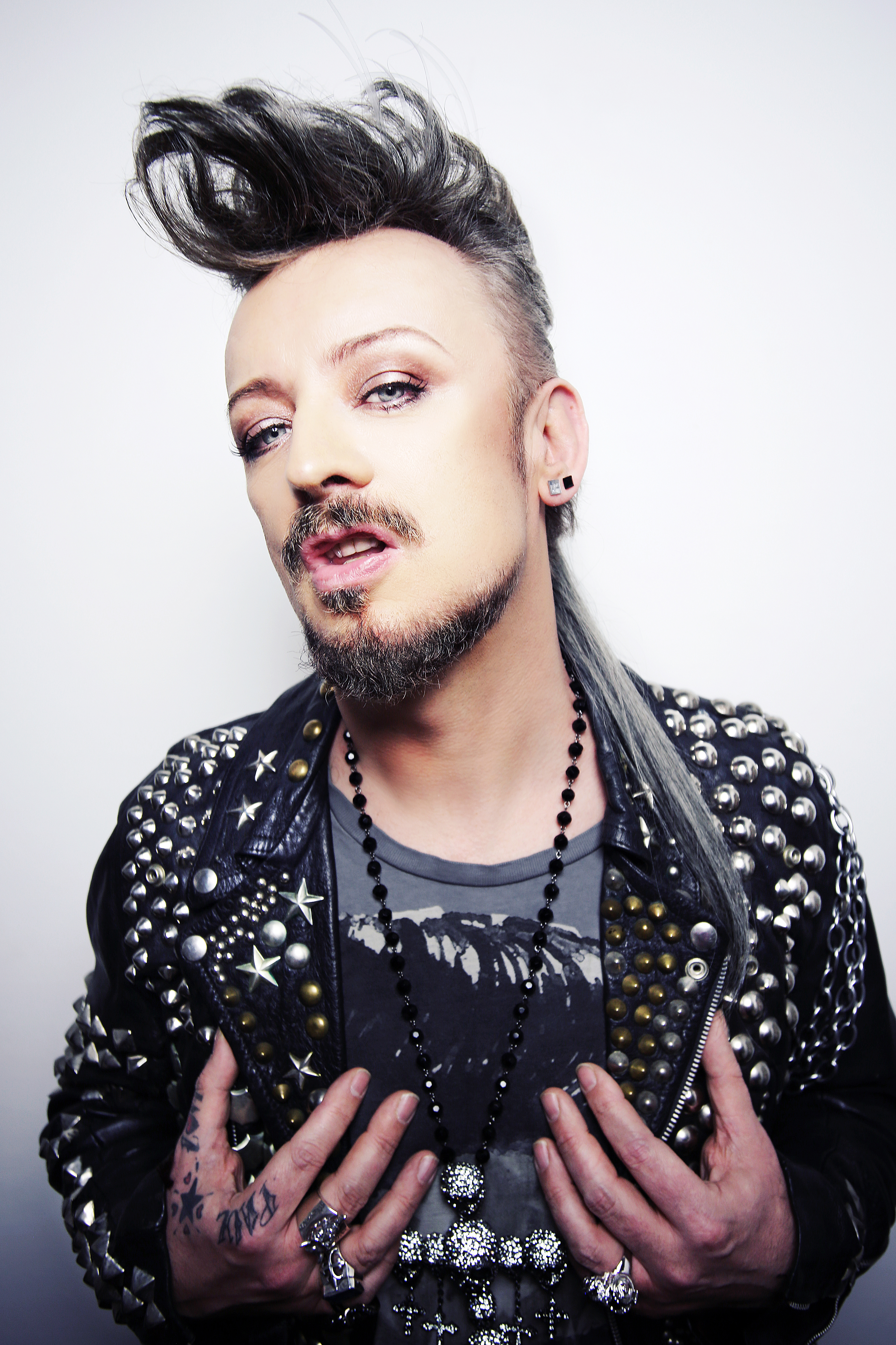 Boy George by Dean Stockings